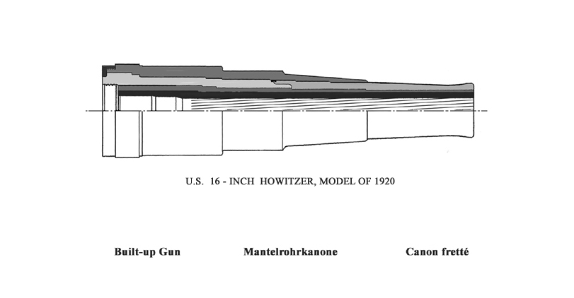 Sectional view of a buil-up US 16 inch Howitzer Model of 1920